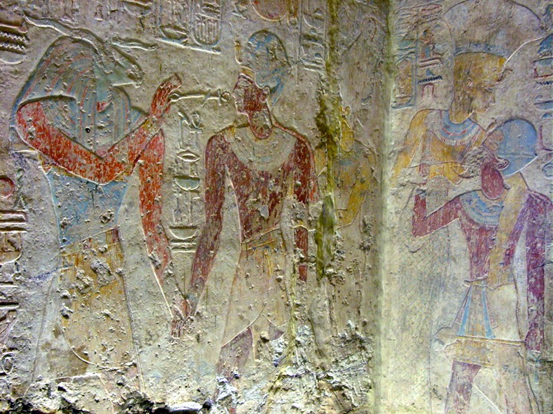 Two delicate reliefs of pharaoh Ramesses II being granted his wish for a long life and being embraced by the gods of Egypt. From his Nubian temple of Beit el-Wali, now relocated to New Kalabsha in Southern Egypt.